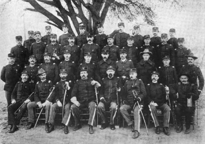 Colonel Myron H. McCord with officers of the First Territorial Infantry. Based upon context, photograph was most likely taken at Chickamauga Park during or shortly after the Spanish–American War.